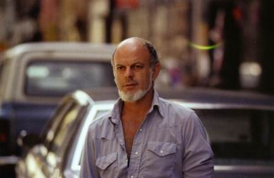 Photograph